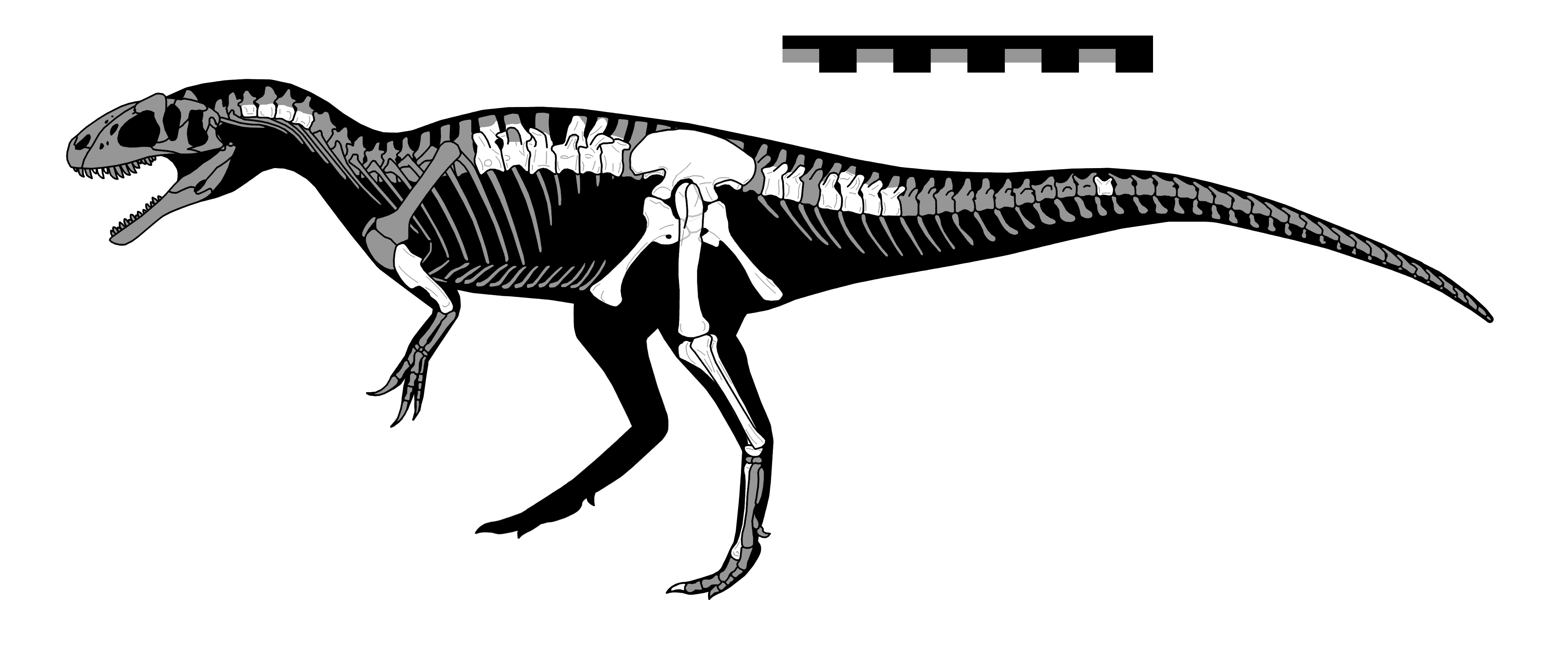 Skeletal diagram of Gasosaurus constructus illustrating the known and unknown material. Scale bar = 1m, unknown material restored after both Allosaurus "jimmadseni" and Sinraptor dongi.